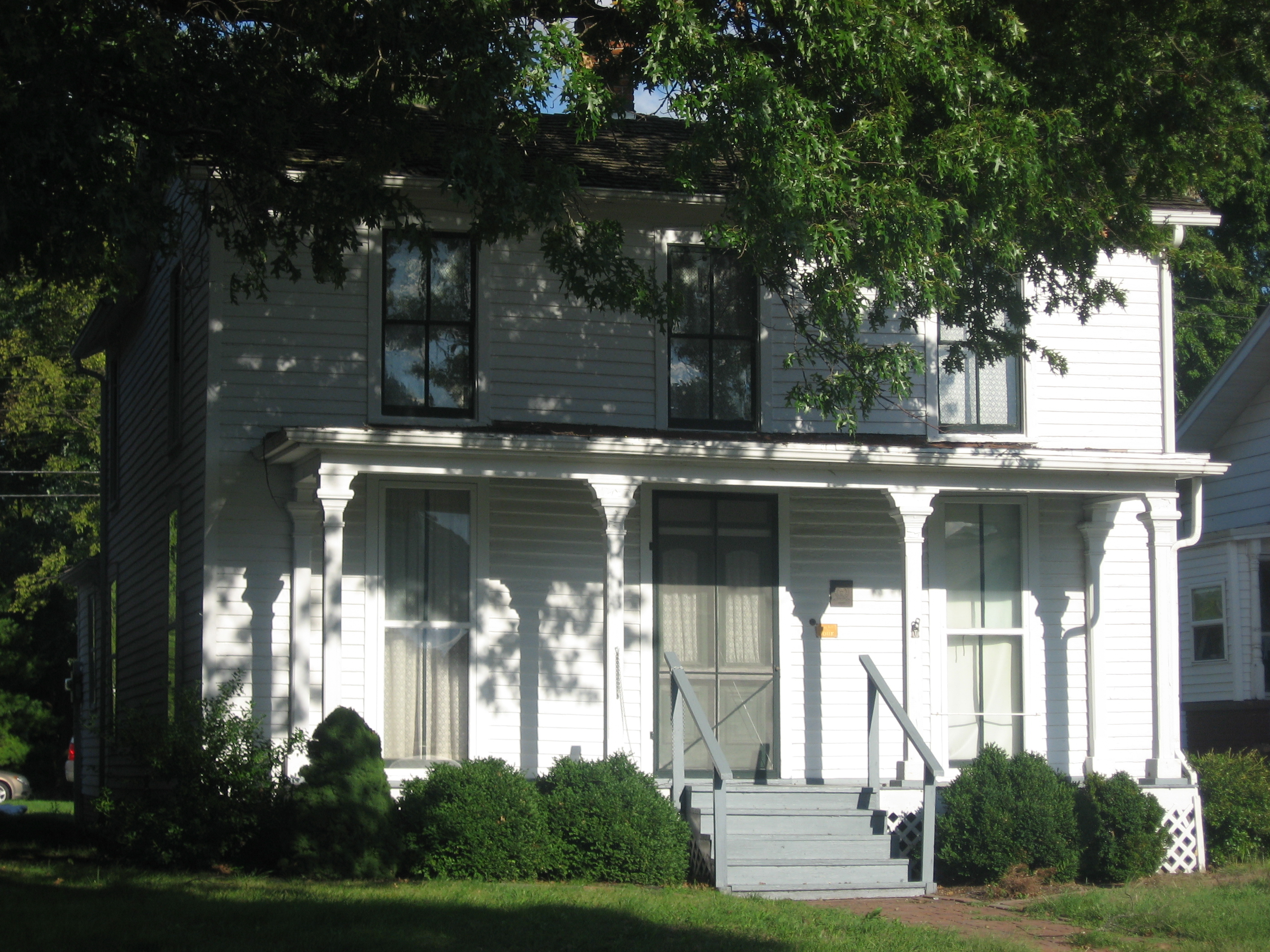 Front of the William Jennings Bryan Boyhood Home, located at 408 S. Broadway (Illinois Route 37) in Salem, Illinois, United States. Built in 1852, it is listed on the National Register of Historic Places.